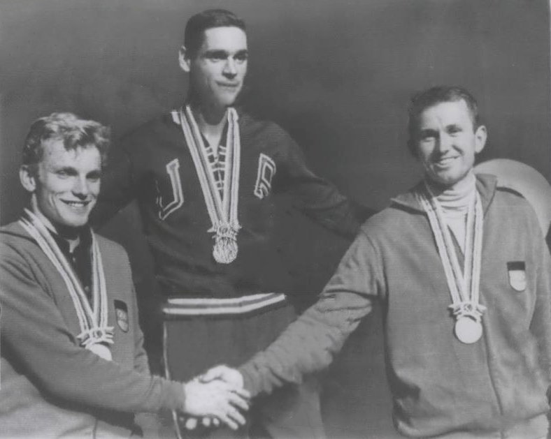 1964 Press Photo Fred Hansen wins gold at pole vault in Tokyo Olympics